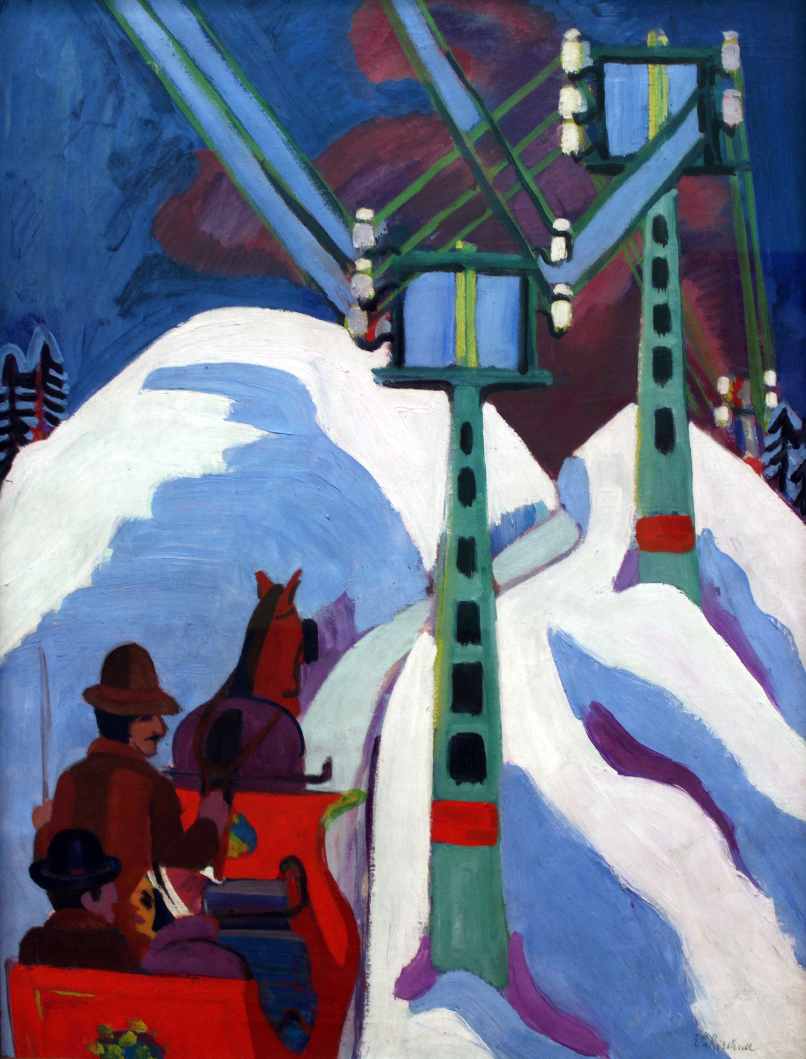 The Sleigh Ride